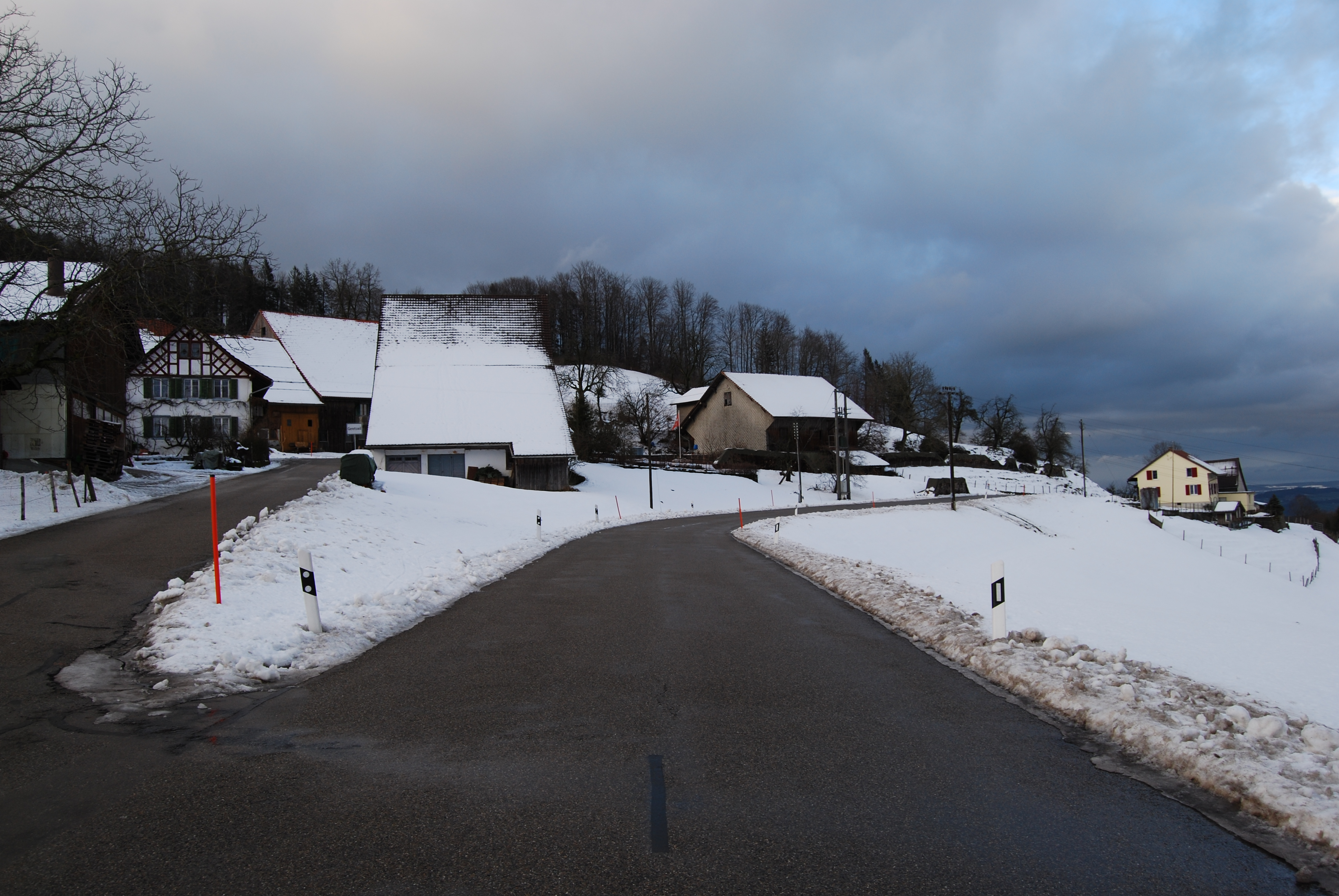 Geretswil, municipality of Hofstetten, canton of Zürich, SwitzerlandEsperanto: Geretswil, komunumo Hofstetten, Kantono Zuriko, Svislando